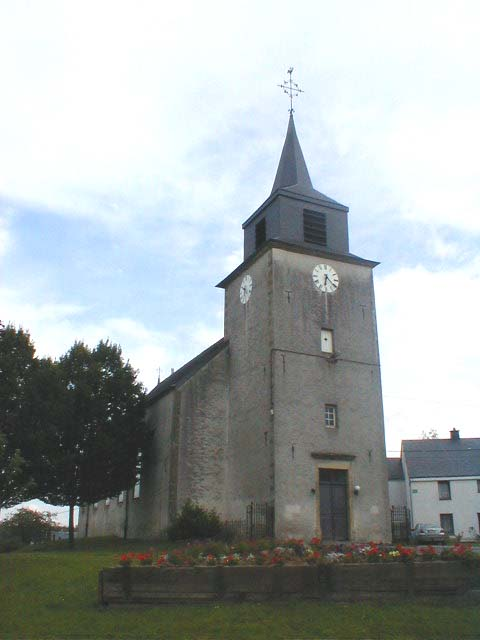 Church of Rulles (Belgium)